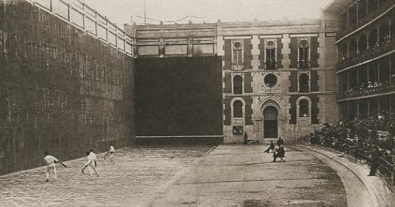 Beti Jai fronton (Madrid), photo of 1916.